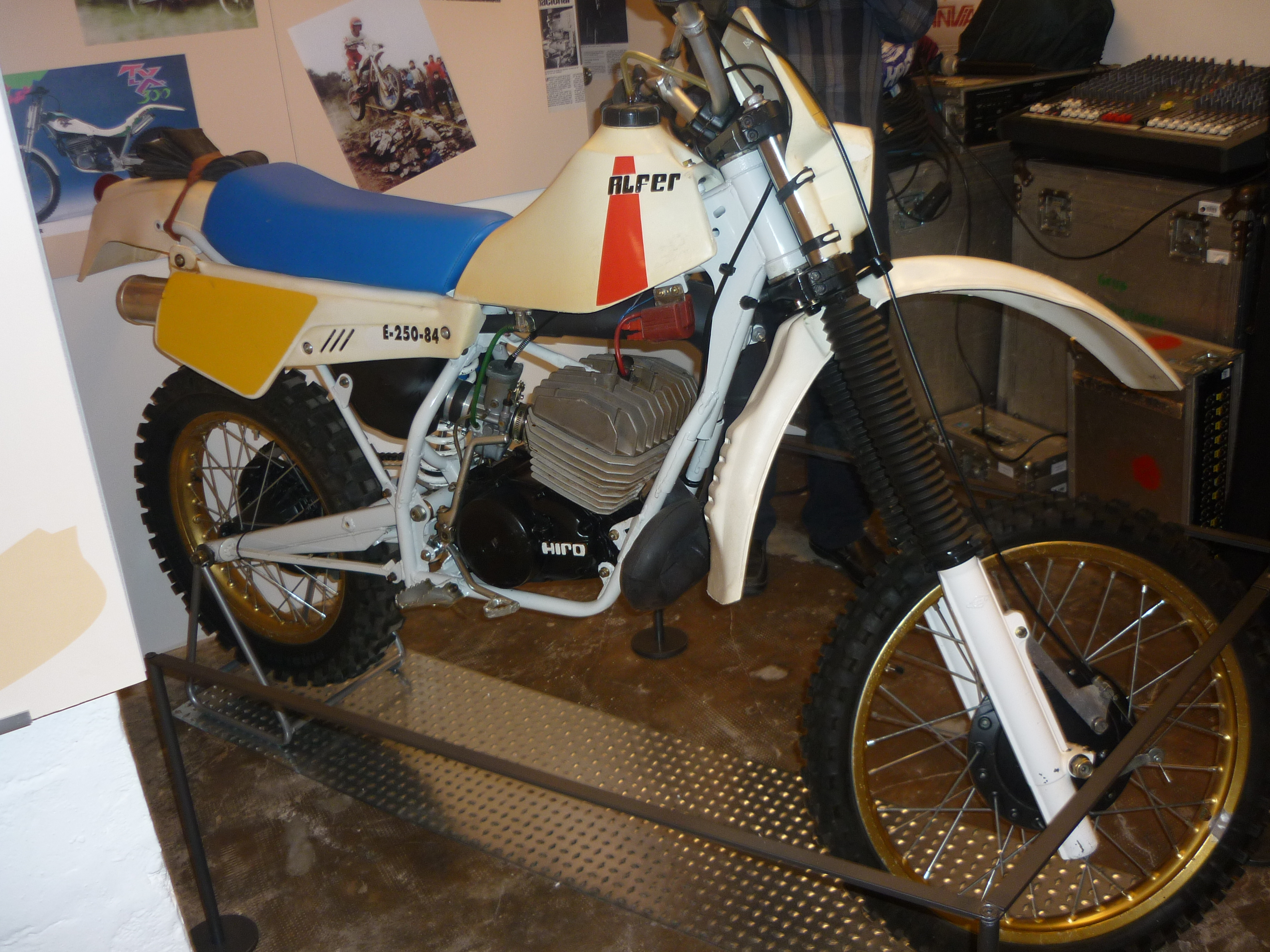 Alfer E-250-84 250cc (1984) with a Hiro engine.Museu de la Moto de Barcelona (Catalonia).